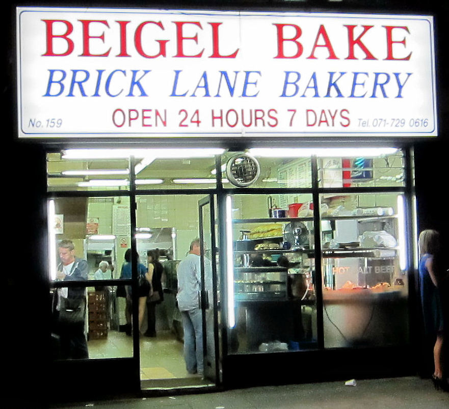 The front of the Beigel Bake delicatessen in Brick Lane, London, UK. _____________________________ See where this picture was taken.